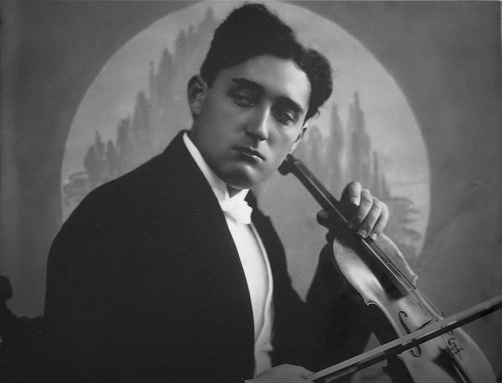 Ede Zathurecky, Hungarian violinist